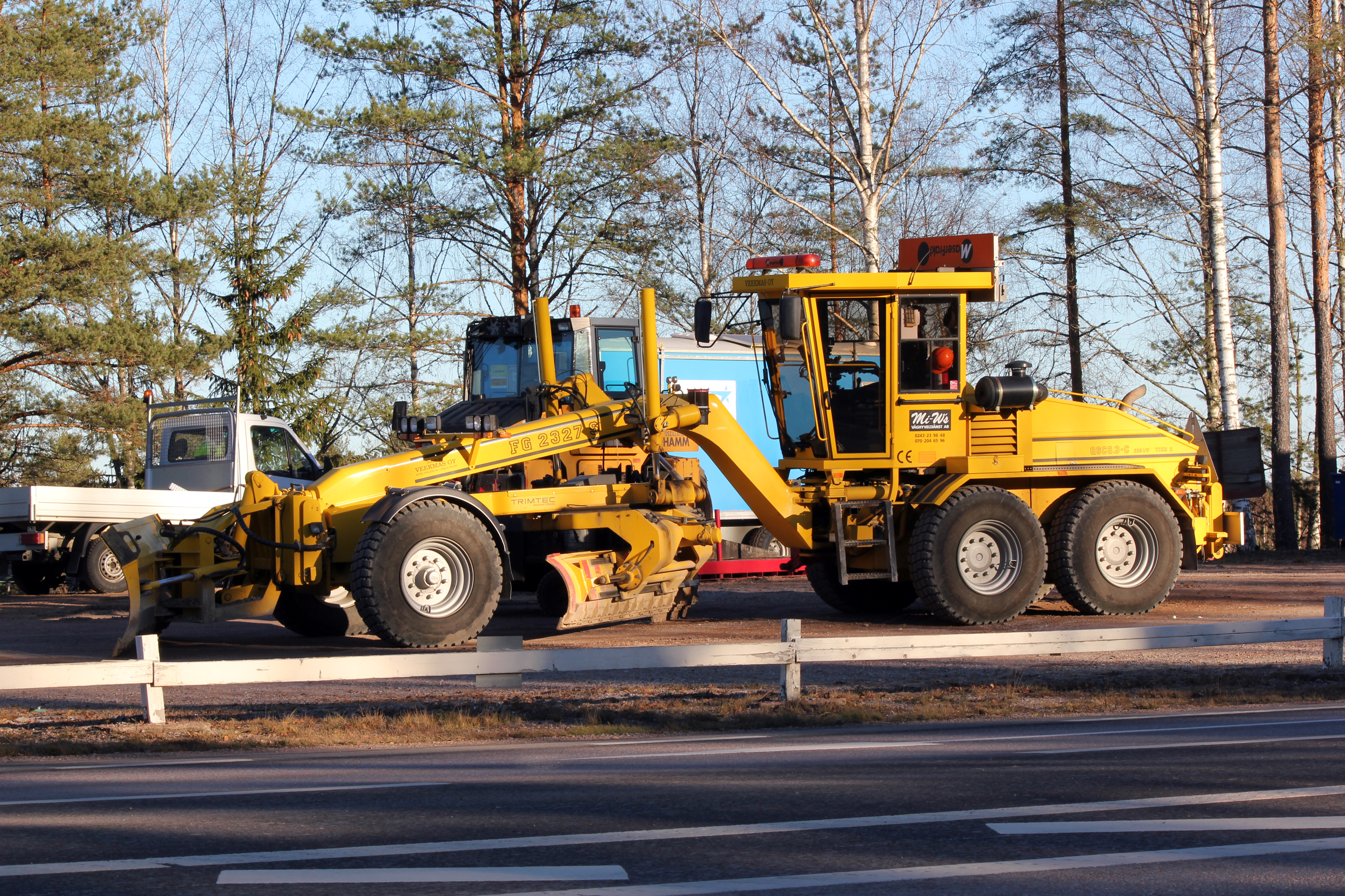 Veekmas FG2327 S grader at roadworks at Riksväg 70 (National road 70) in Rembo, Sweden.